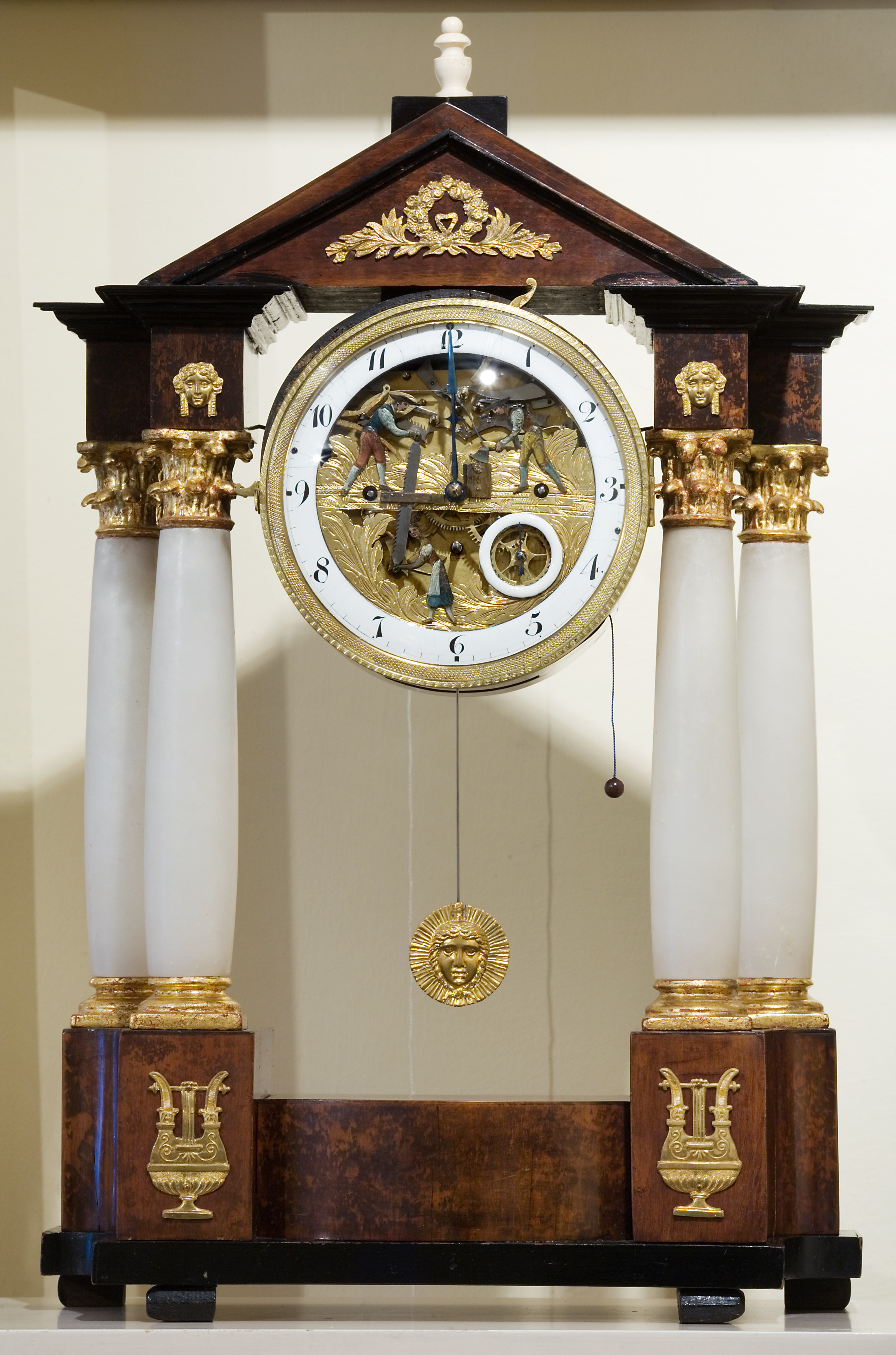 Vintage Table or Mantel Clock